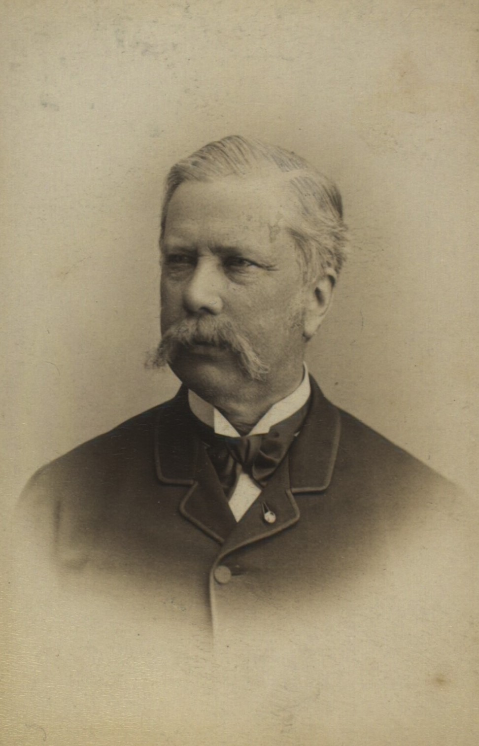 Christian Albert Frederik Thomsen (1827-1896), Danish Army General and politician, Minister of War, MP